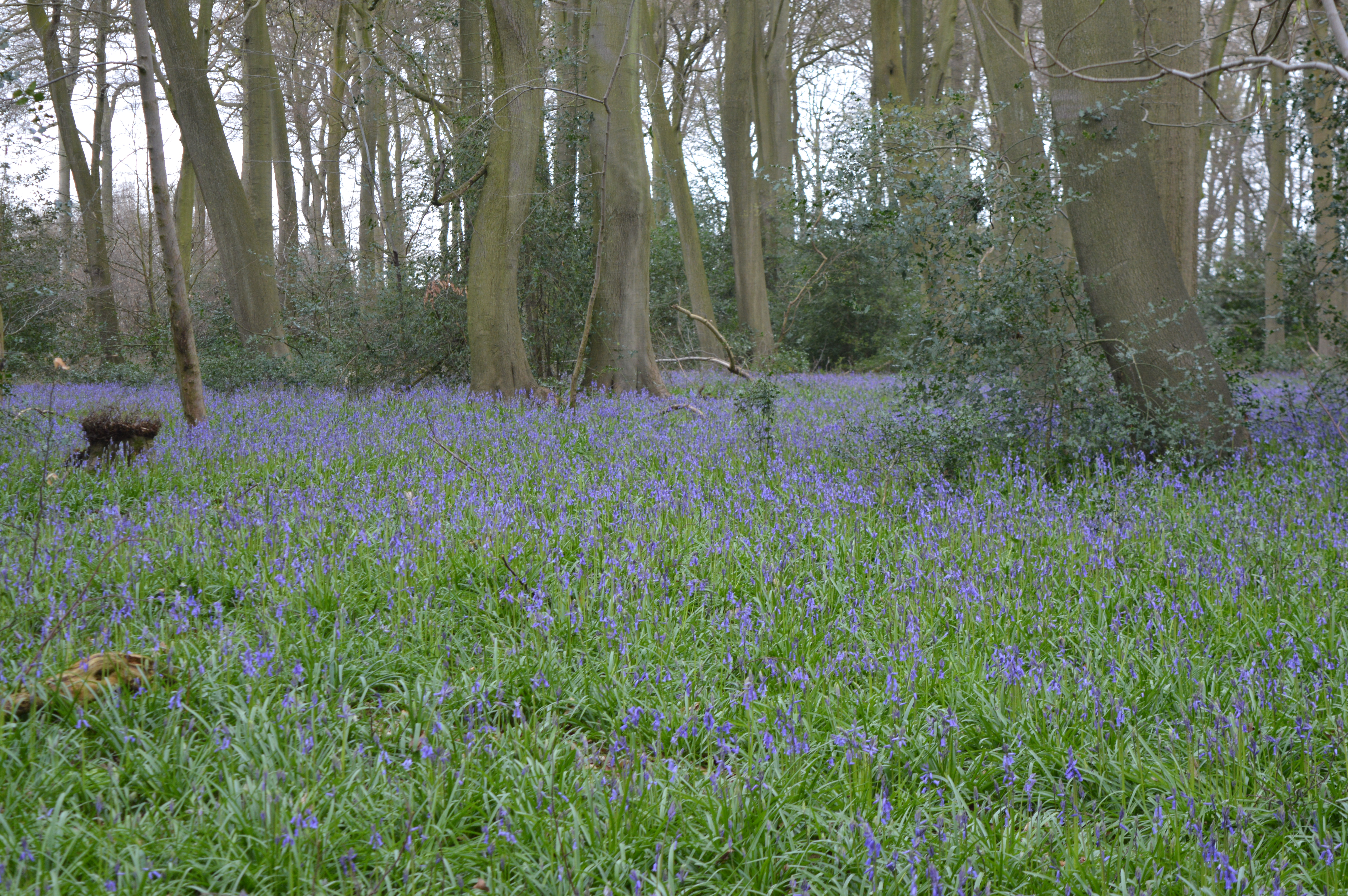 Lambridge Wood, a biological Site of Special Scientific Interest near Henley-on-Thames in Oxfordshire